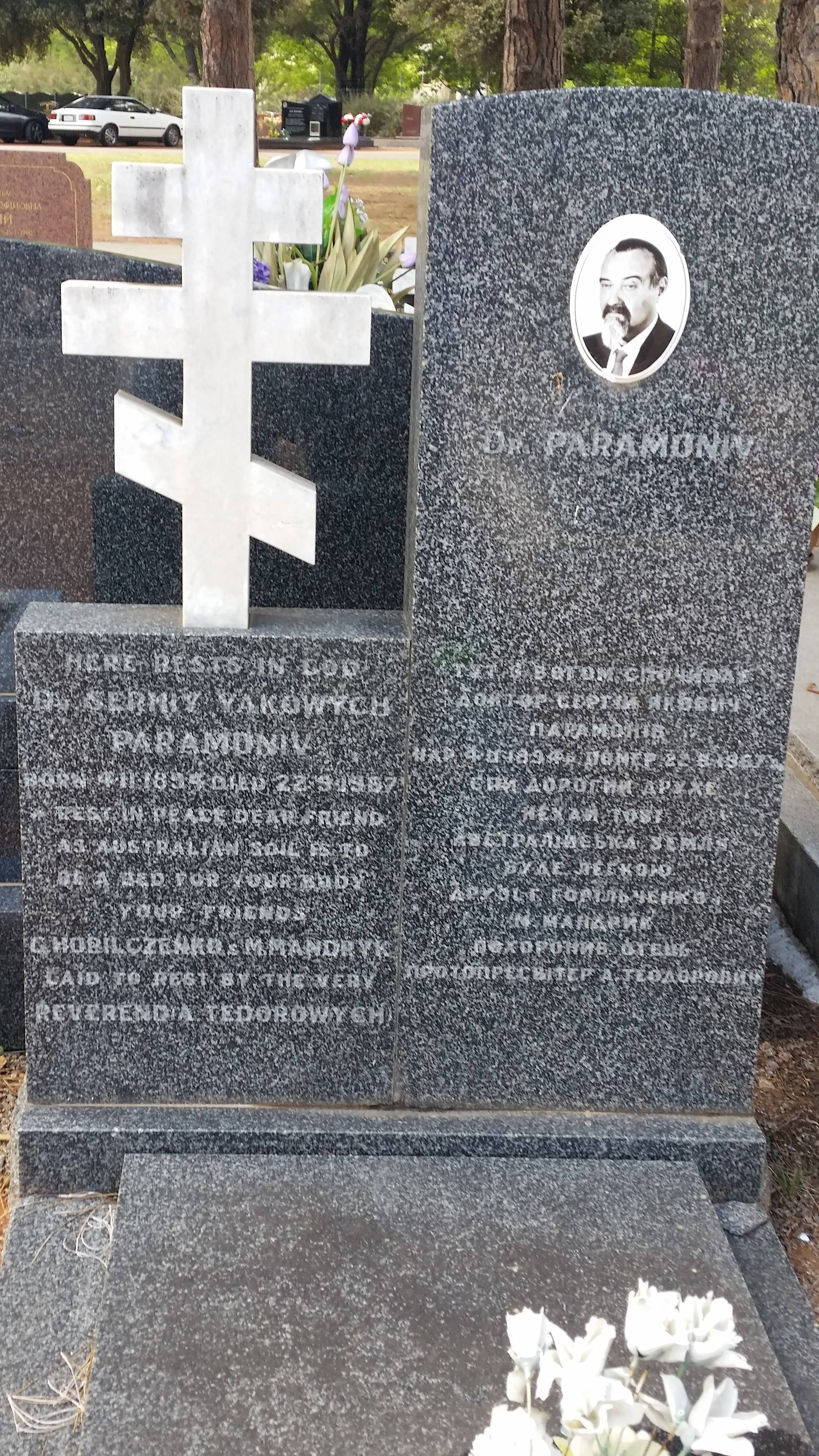 Dr Paramoniv grave, Ukrainian and Australian entomologist and paleontologist